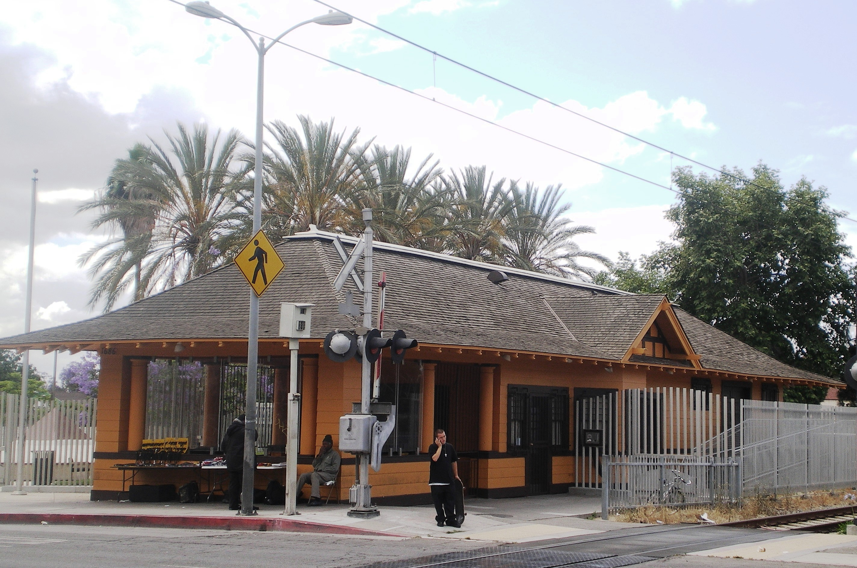 Watts Station, 1686 E. 103rd St., Watts, Los Angeles, California. Built 1904, it is a Los Angeles Historic-Cultural Monument, and is listed on the National Register of Historic Places in Los Angeles.